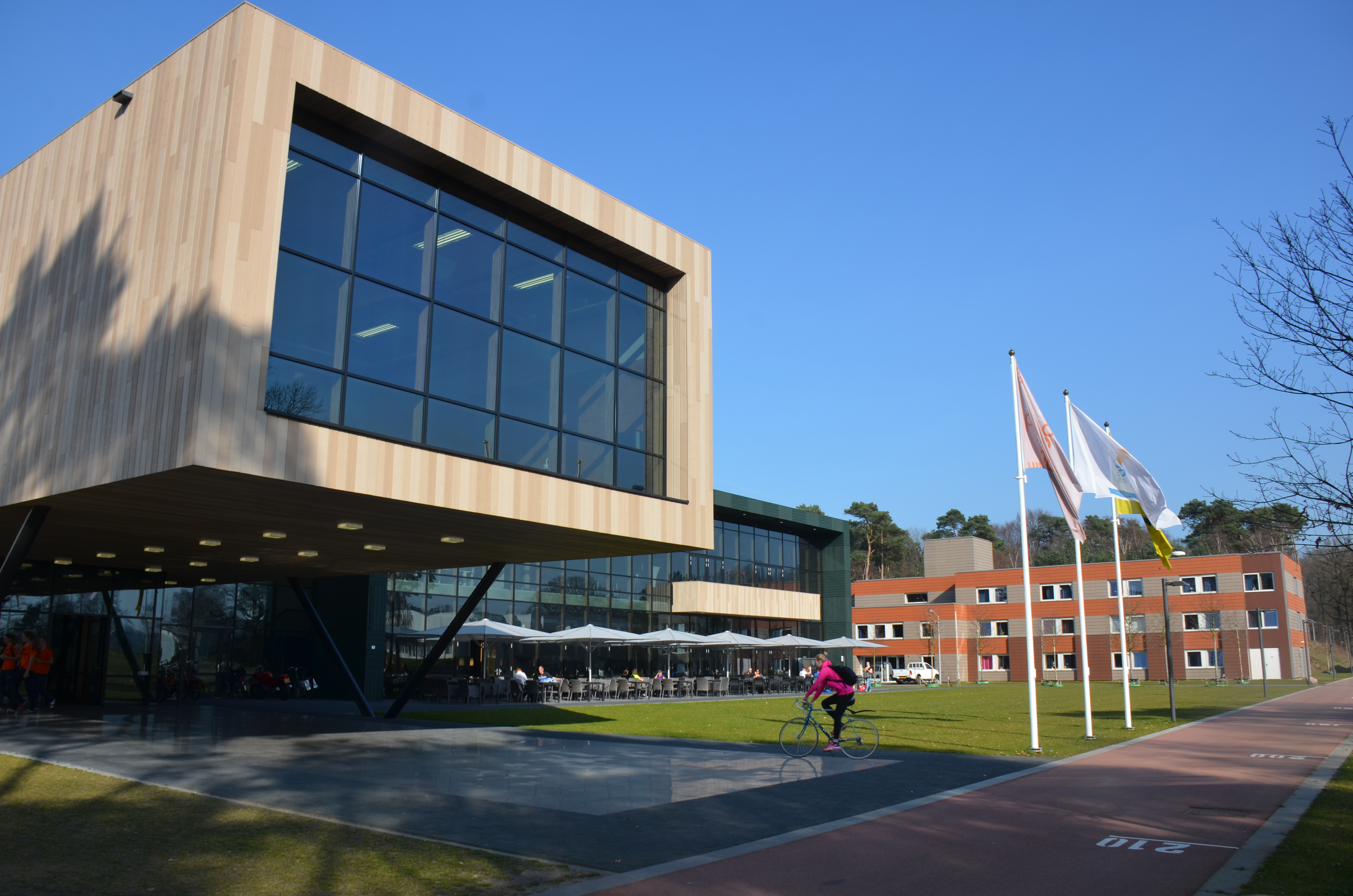 Papendal sports center in the spring sunshine